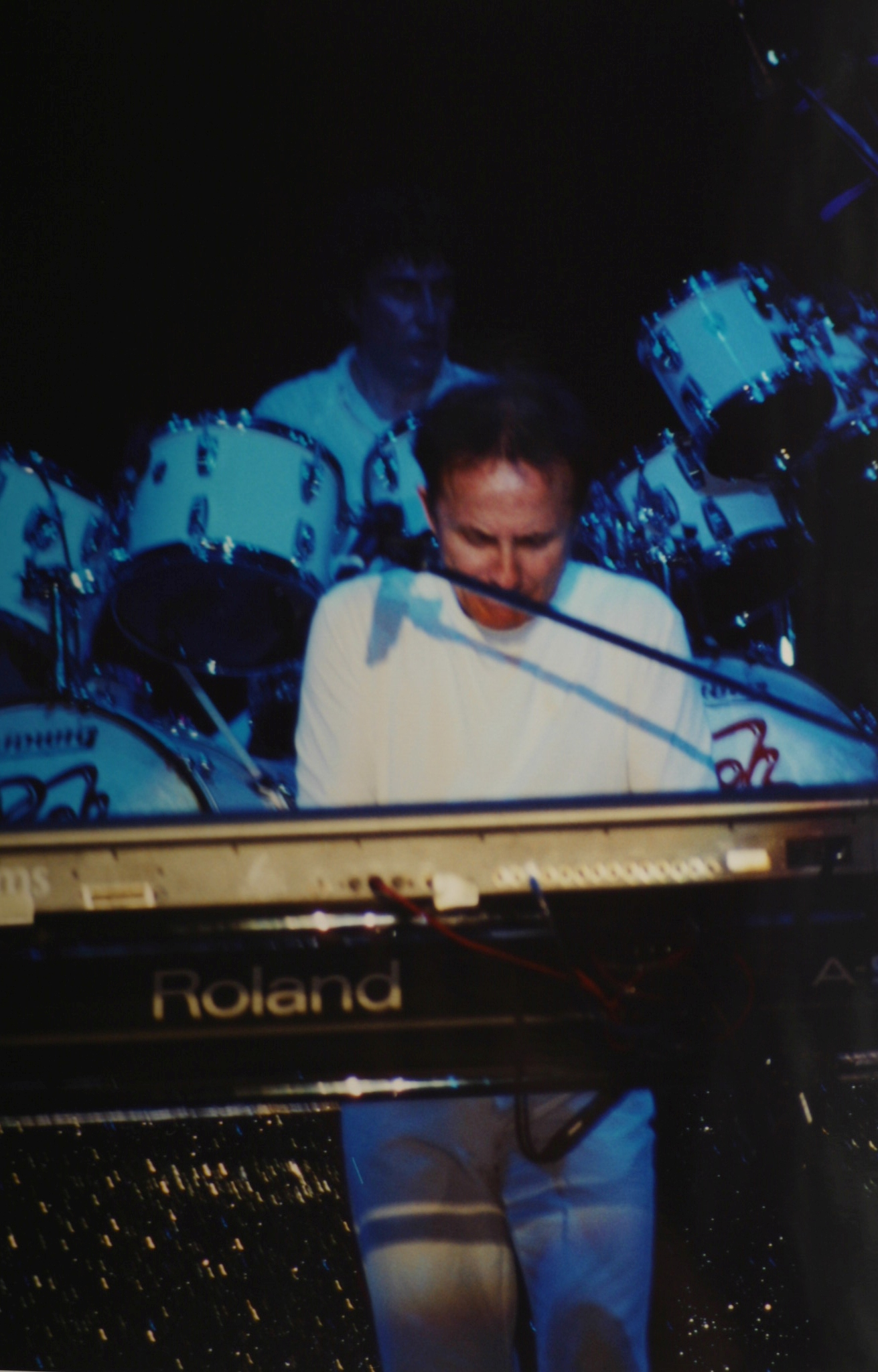 Roby Facchinetti, Pooh, at the concert in Monza, 2004